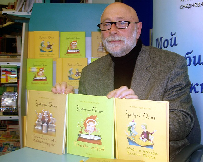 Grigiry Oster on presentation